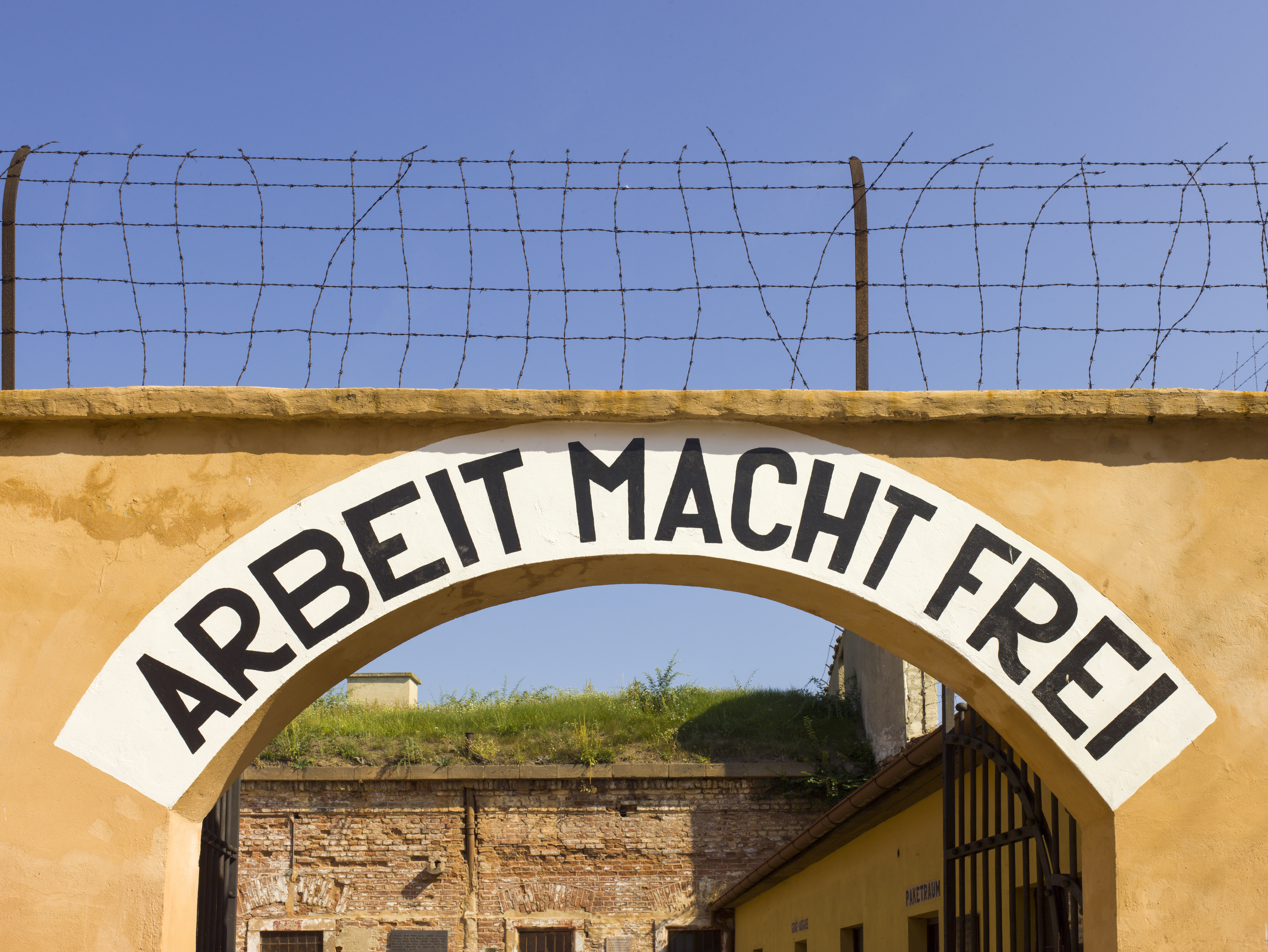 Theresienstadt concentration camp archway with the phrase Arbeit macht frei work makes (you) free, placed over the entrance in a number of Nazi concentration camps.